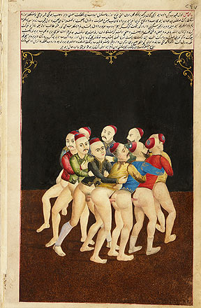 Tuhfet Ul-Mulk (a Turkish translation of Ruju as-Shaykh ila sibah) Illustrated Turkish Erotic Manuscript Location: Alain Kahn-Sriber Collection, Paris